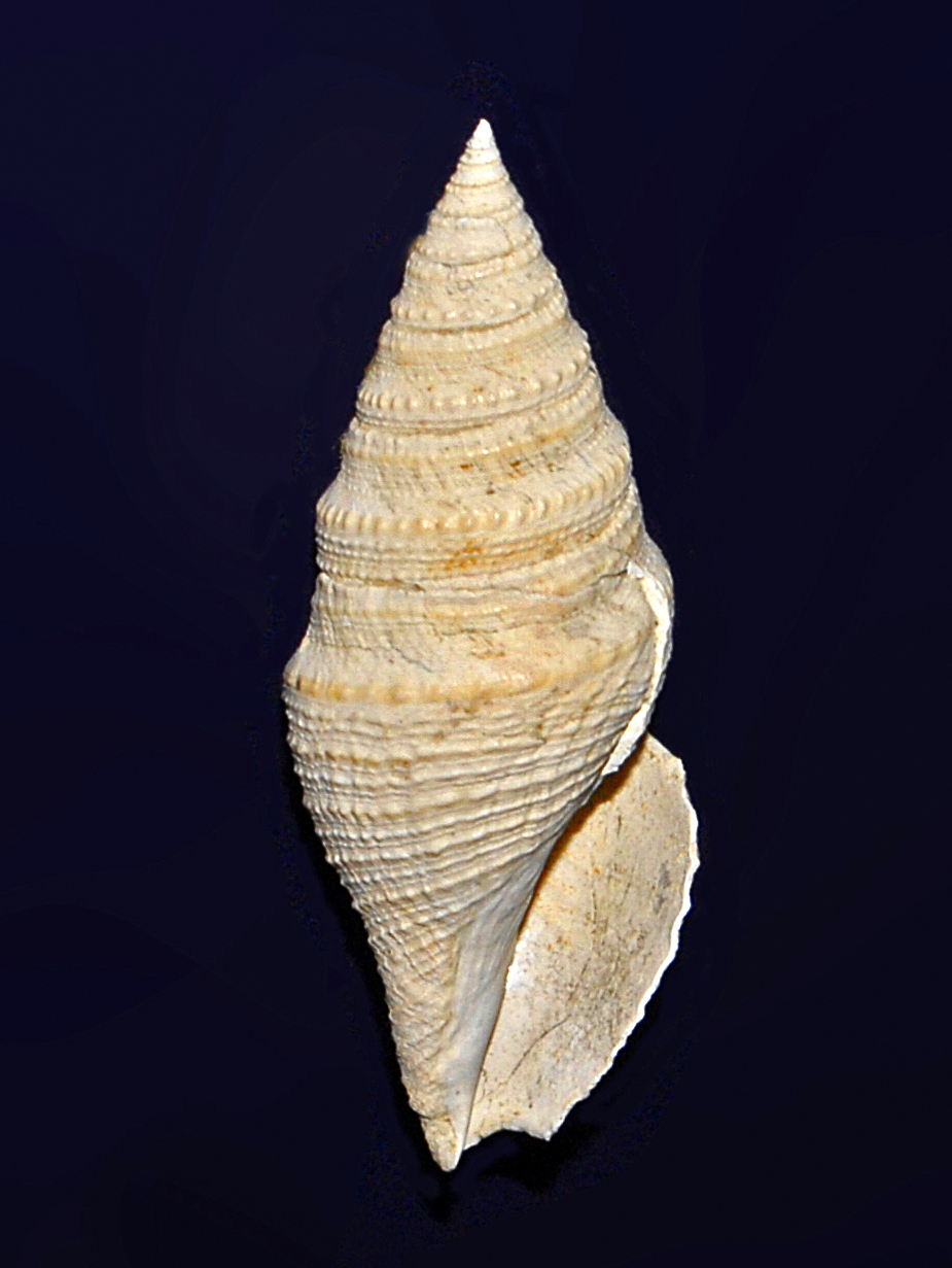 Fossil shell of Bathytoma cataphracta from Pliocene of Italy, on display at the Museo Paleontologico, Asti